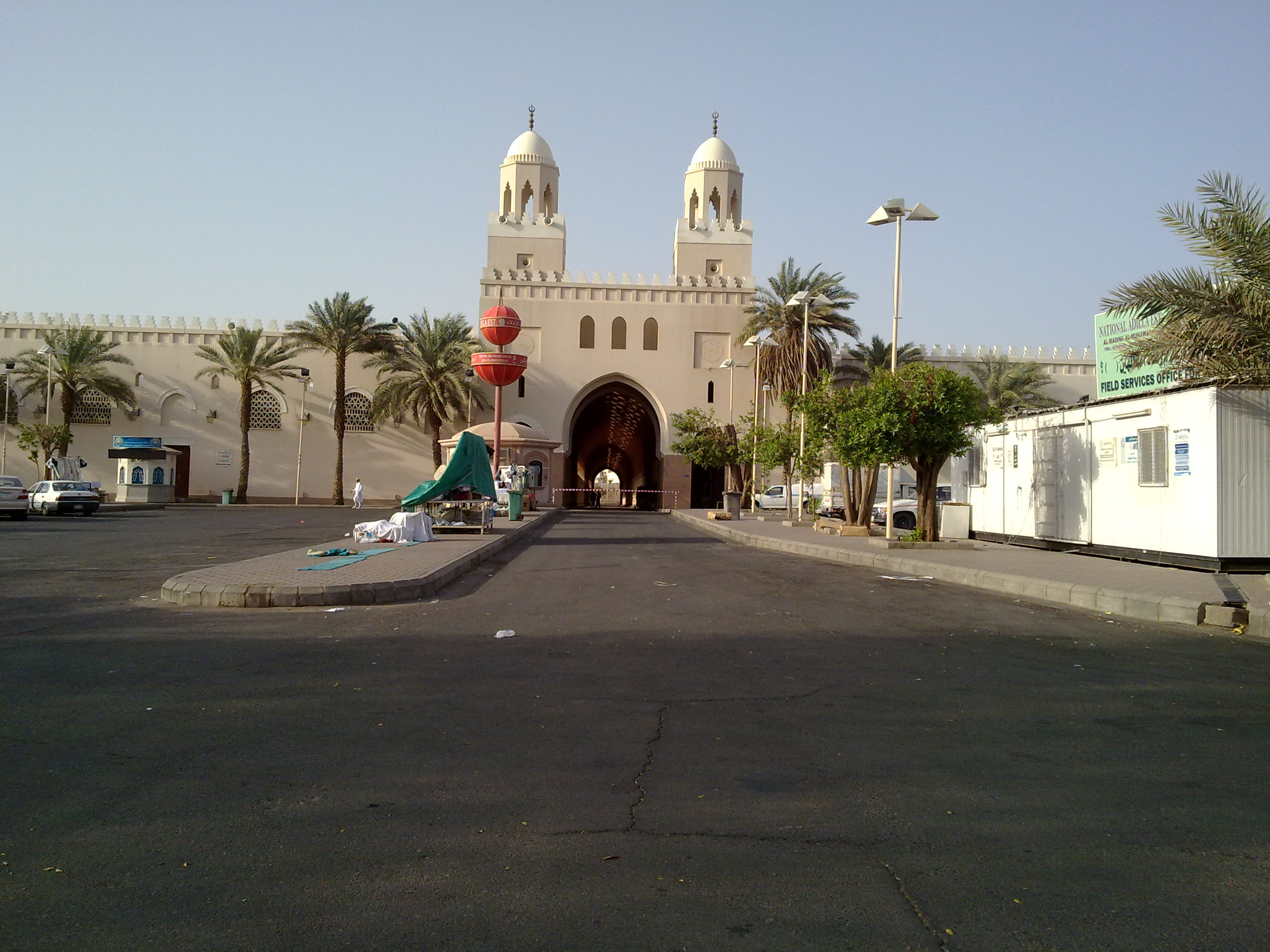 Miqat the people of Medina , Named Abiar_Ali or Zu_'l-Hulafa